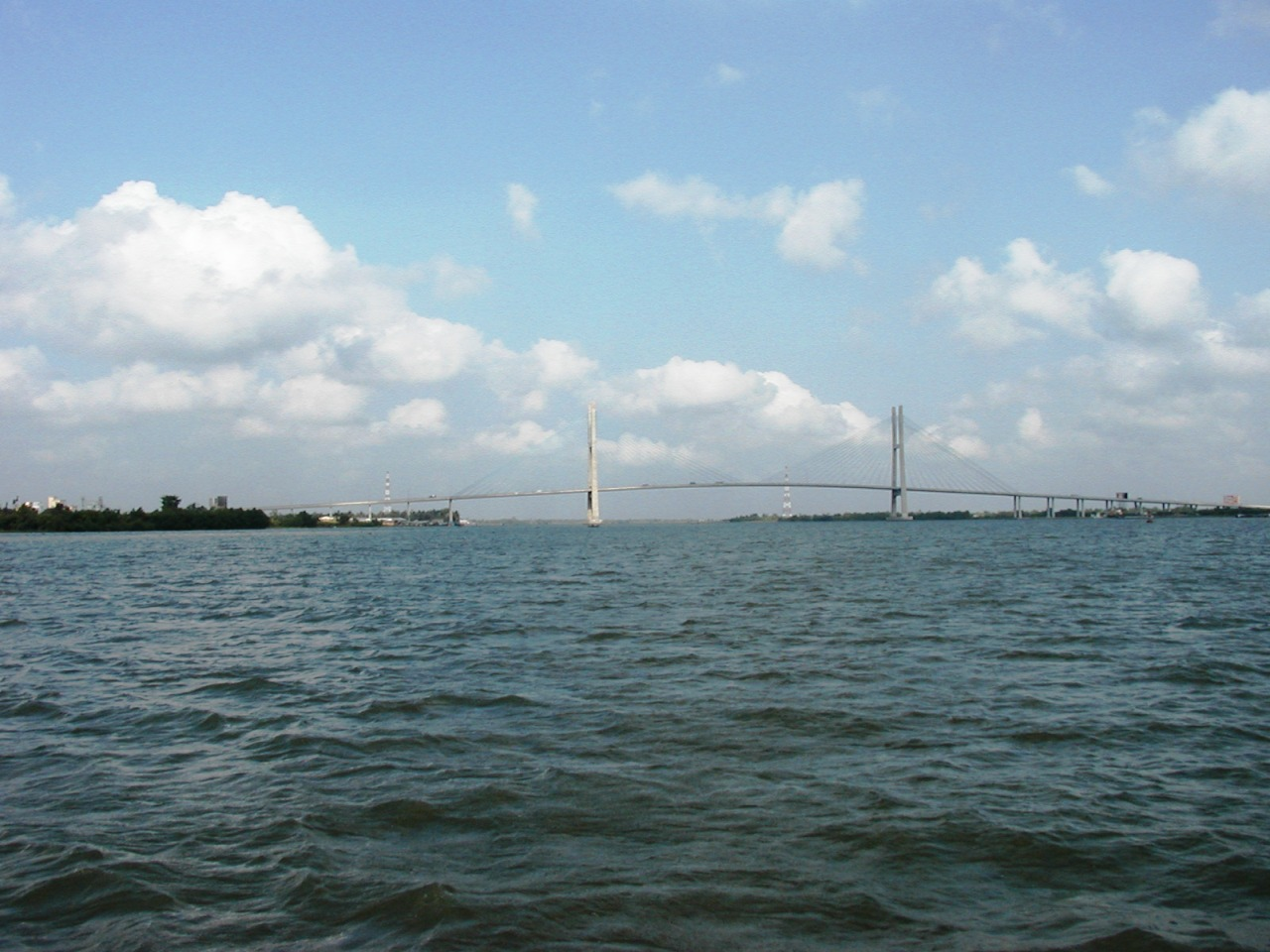 Song Tien (Mekong) at location of My Thuan Bridge, Vietnam